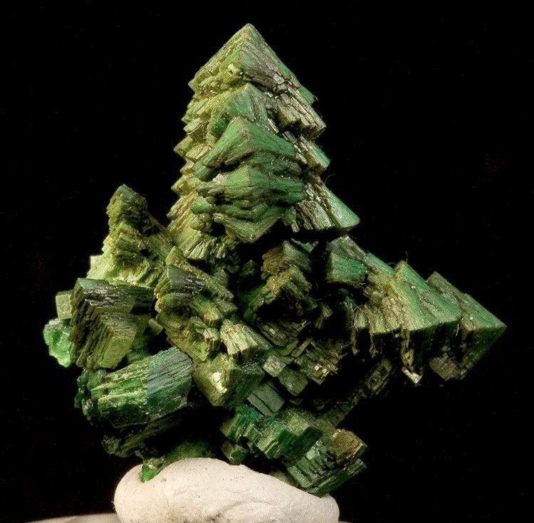 Torbernite Locality: Margabal Mine, Entraygues-sur-Truyère, Aveyron, Midi-Pyrénées, France (Locality at ) Size: 3.0 x 3.0 x 2.0 cm. A stunning, sculptural torbernite specimen from a classic French locale - the Margabal Mine in the Midi-Pyrenees. The lustrous, forest-green, tetragonal crystals look like stacked pagodas in several views and have an amazing, echelon look in other views. Complete-all-around and pristine. Ex. Mijer Collection.